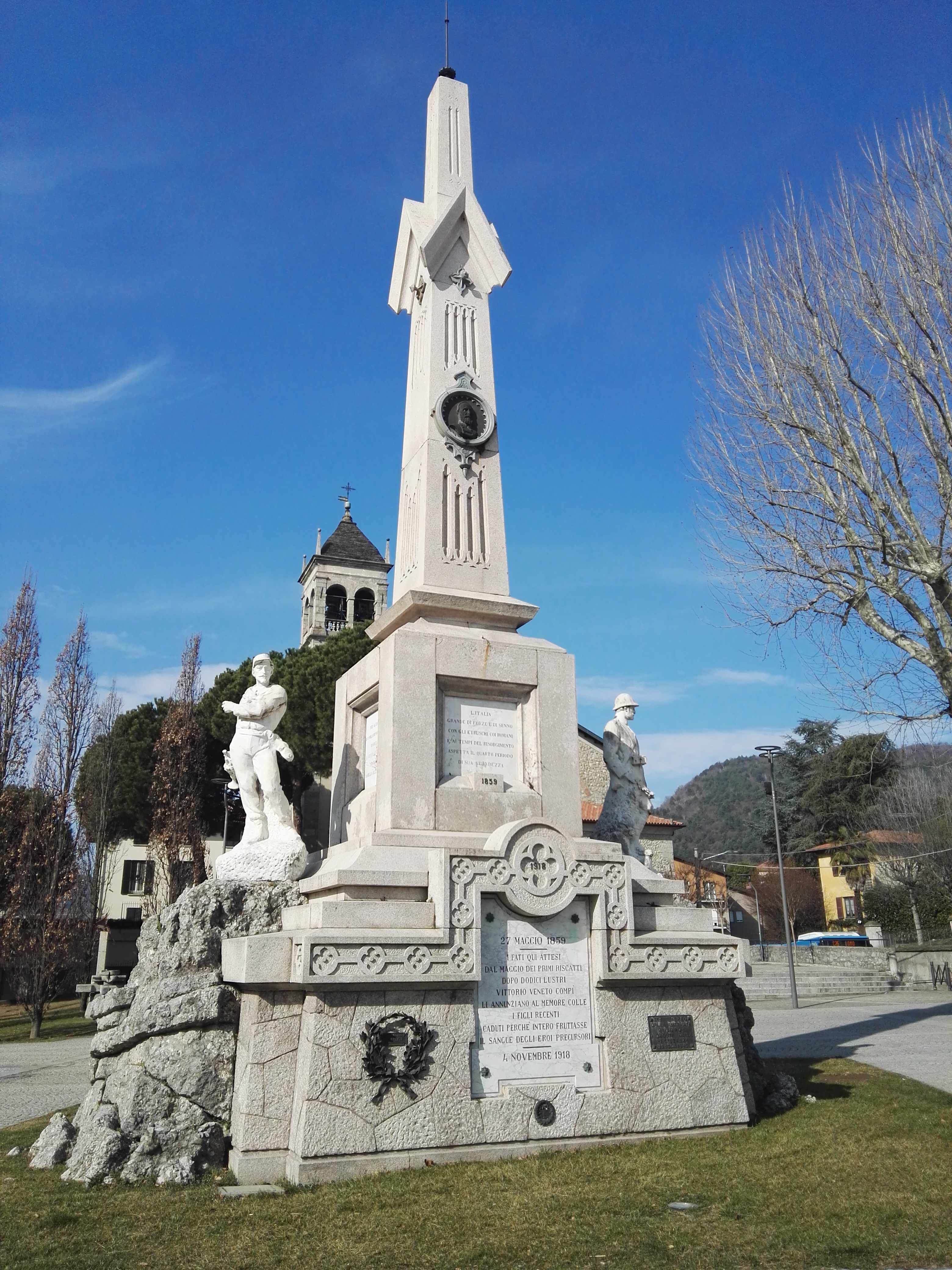 San Fermo della Battaglia - battle monument